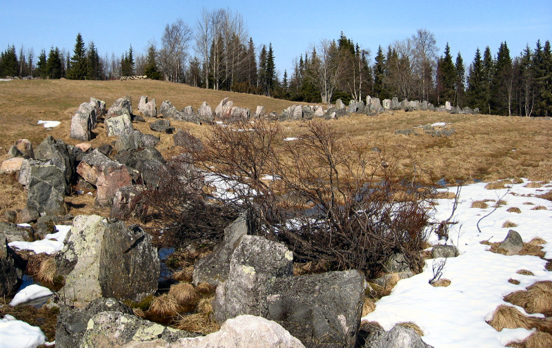 Picture of Finnish World War II defence line Salpa Line (Salpalinja). Picture taken from Aholanvaara village in Salla, Finland